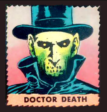 Doctor Death, host of Fawcett's This Magazine is Haunted (1951-1953). Artwork by Sheldon Moldoff.